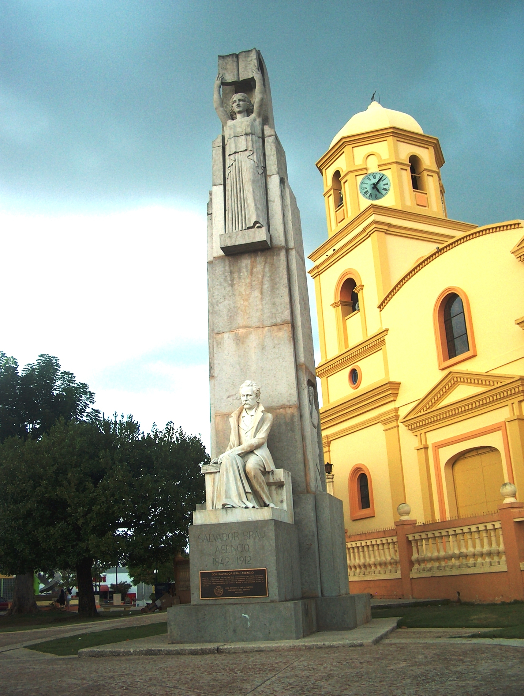 I took this pic on April 1, 2007.